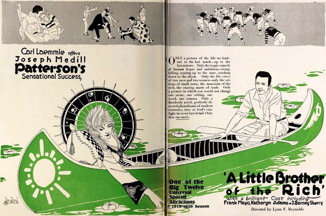 Ad for the American film A Little Brother of the Rich (1919), on pages 1268 and 1269 of the August 9, 1919 Motion Picture News.